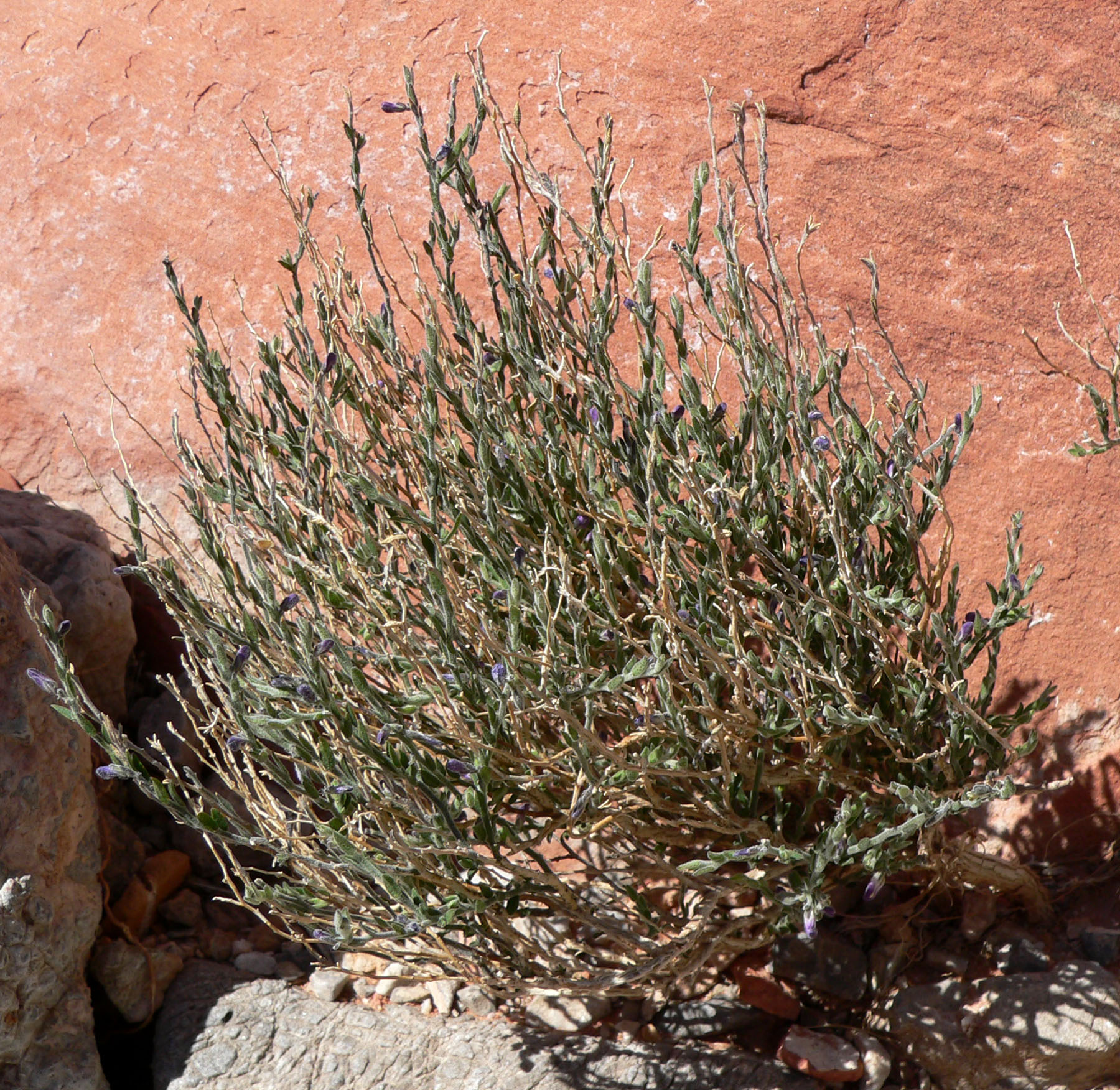 Polygala macradenia var. macradenia about 50 m north of Ash Creek Spring, Calico Basin, Spring Mountains, southern Nevada (elev. about 1200 m)